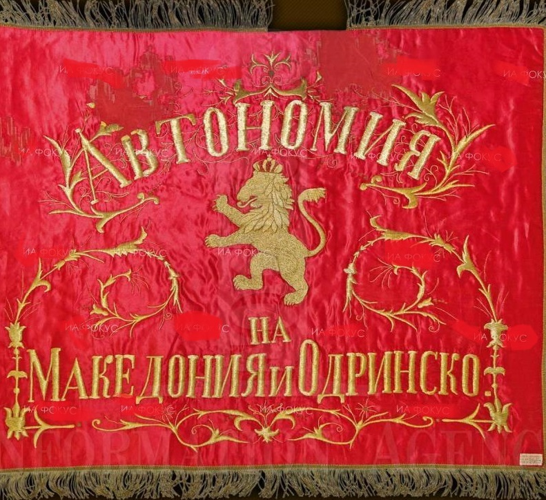 In 1900 the Supreme Macedonian Committee and Strandzha Committee merged into a Supreme Macedonian-Adrianopolitan Committee. This is Shumen Macedonian-Adrianopolitan Society flag.